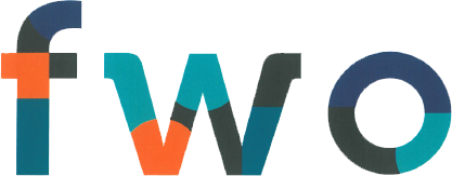 FWO logo english